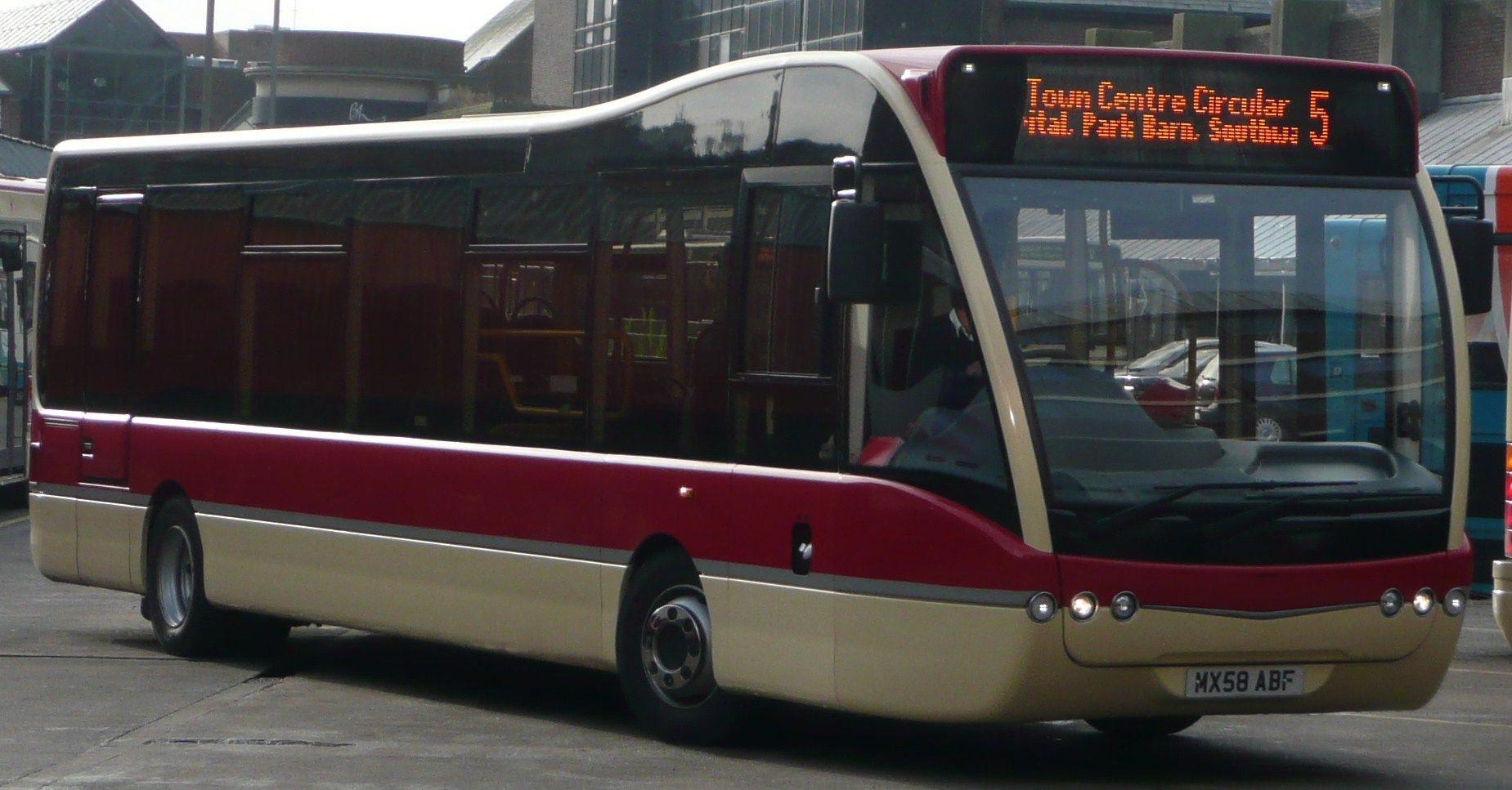 Safeguard Coaches' MX58 ABF, an Optare Versa, in Guildford on route 5.